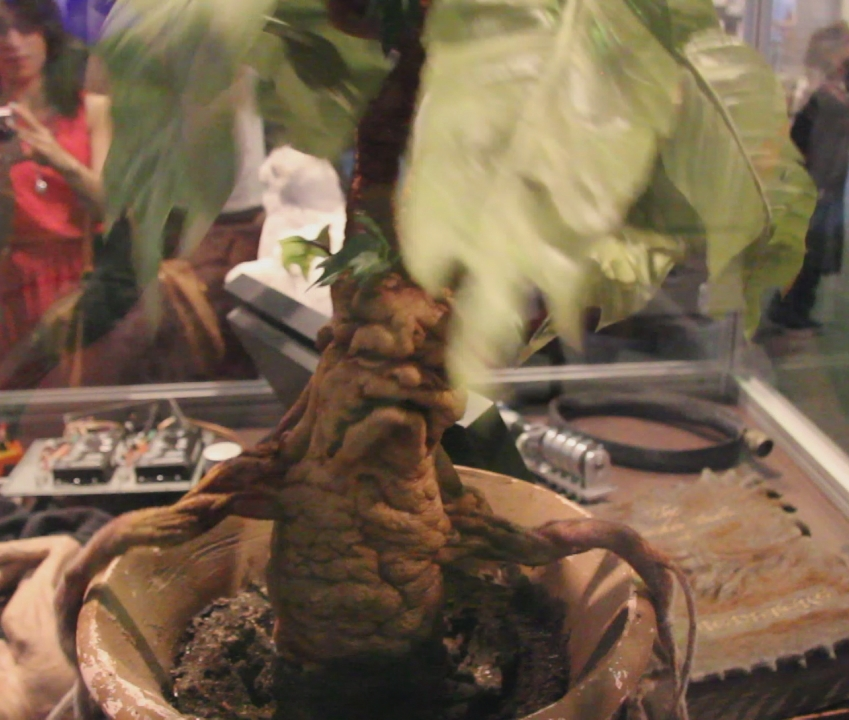 Warner Bros. Studio Tour London: The Making of Harry Potter.